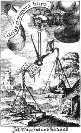 Emblem from the book of emblems Icones mortis by Georg Philipp Harsdörffer